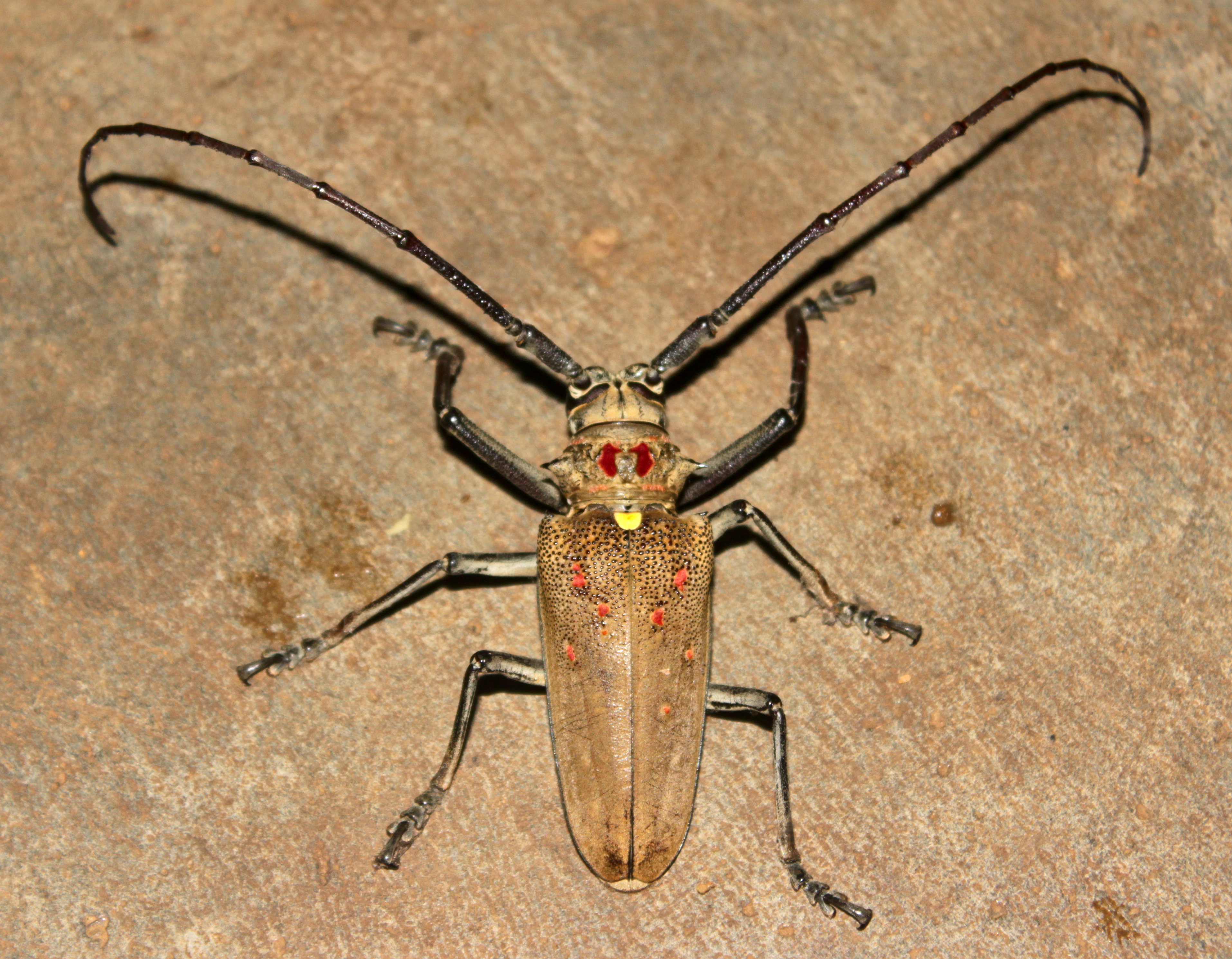 Batocera rufomaculata. Photographed from Kanjirappally, Kerala